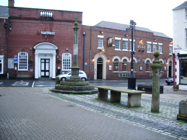 Market Place, Poulton-le-Fylde, near to Poulton-le-Fylde, Lancashire, Great Britain. With it market cross, fish stones and whipping post. The fish stones at Kirkham are a better example than these ones